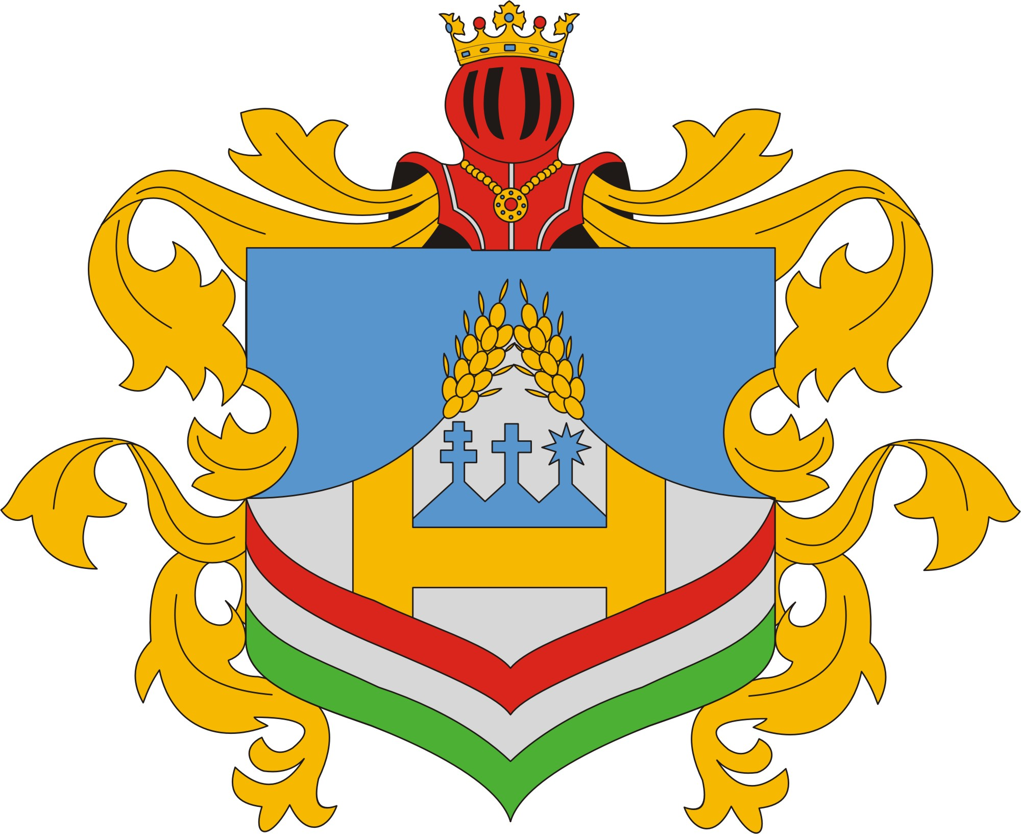 Coat of arms of Lajoskomárom, Hungary